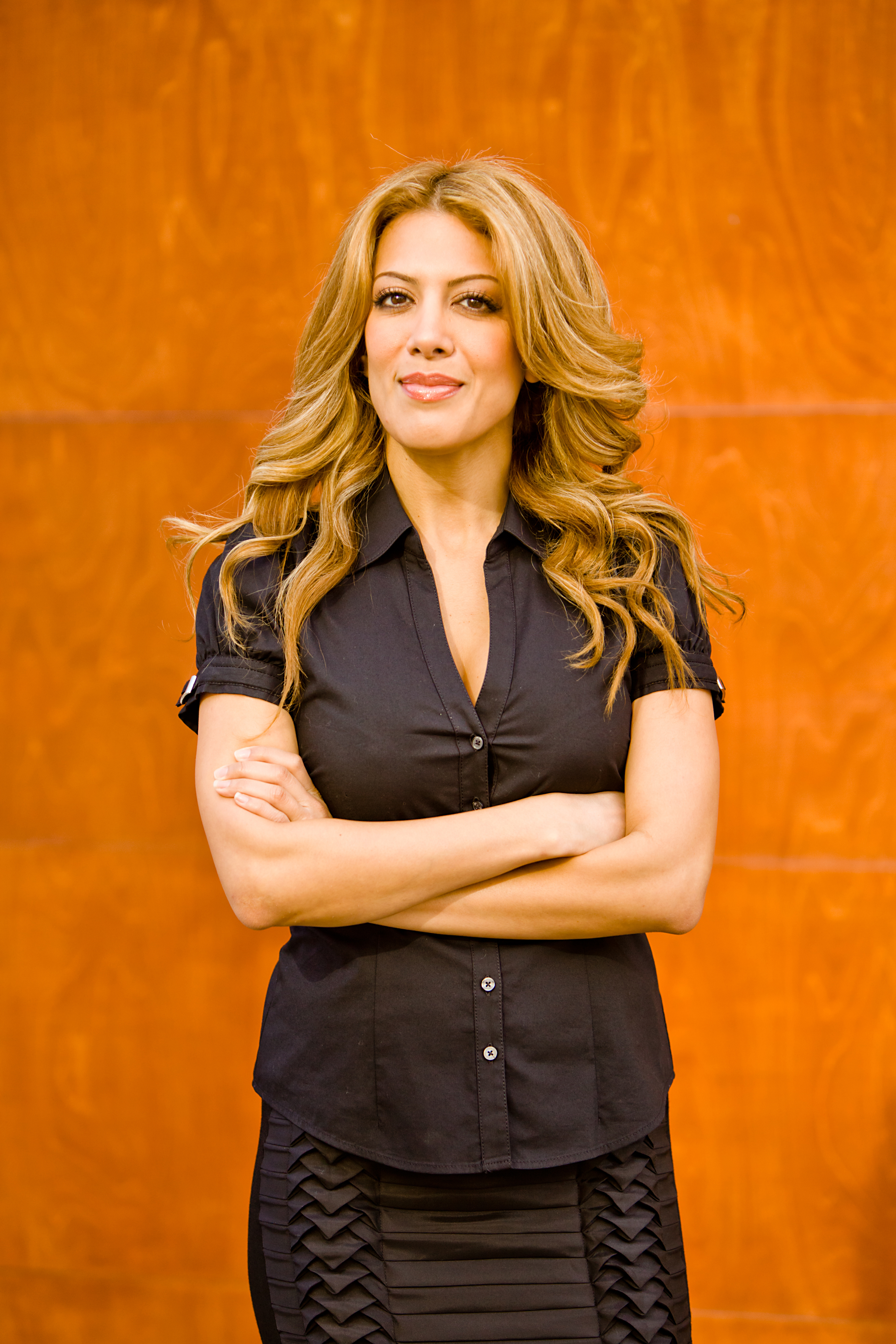 Kavita Channe before filming 1st Down & Dirty